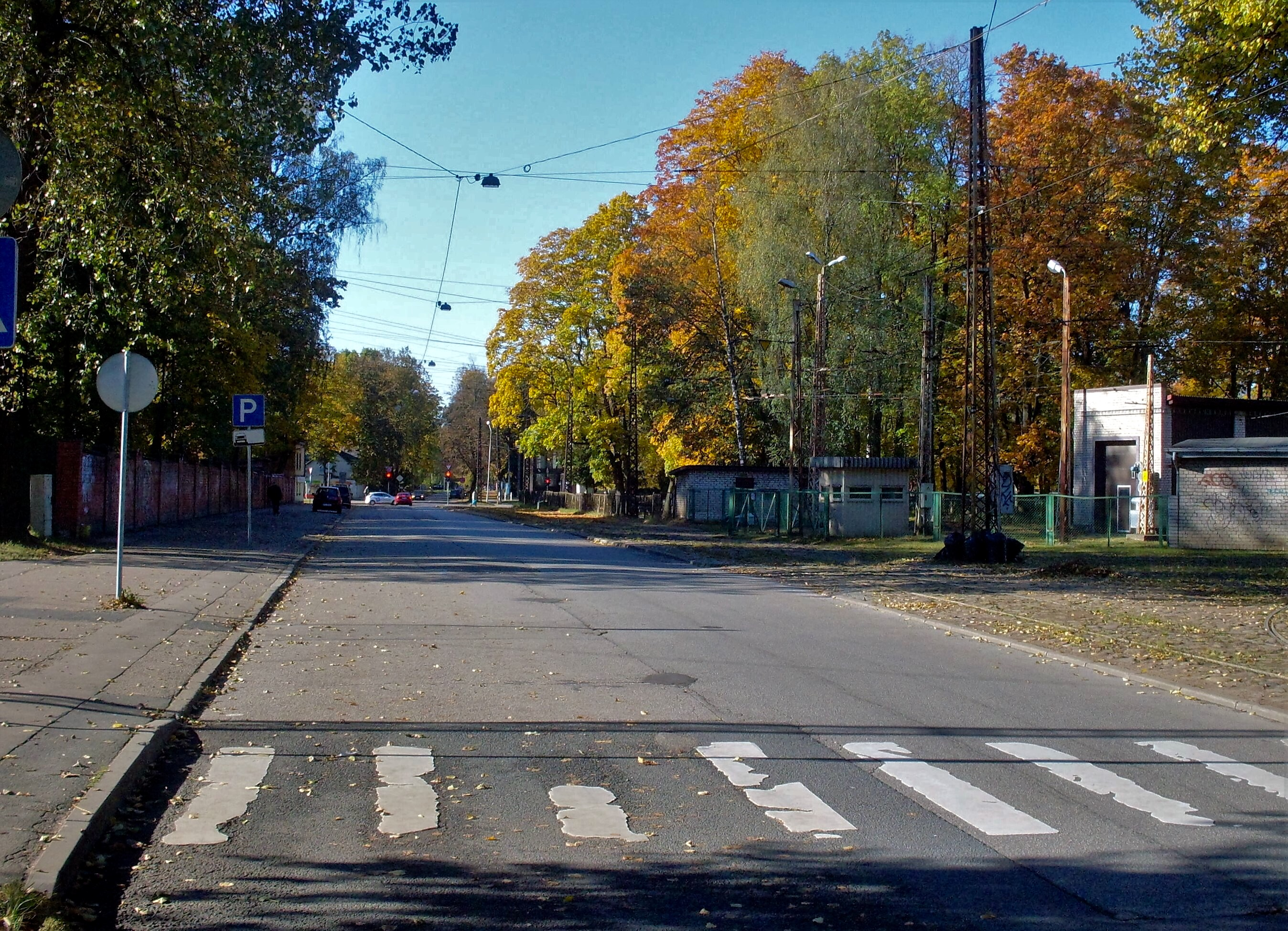 Riga, Telts street in Torņakalns district.